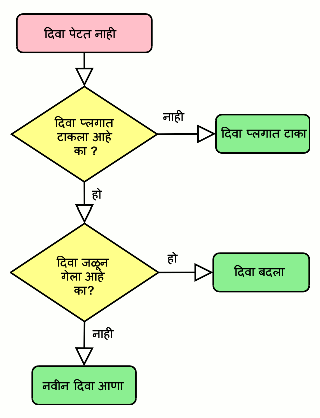 Flowchart depicting the logic to test a lamp